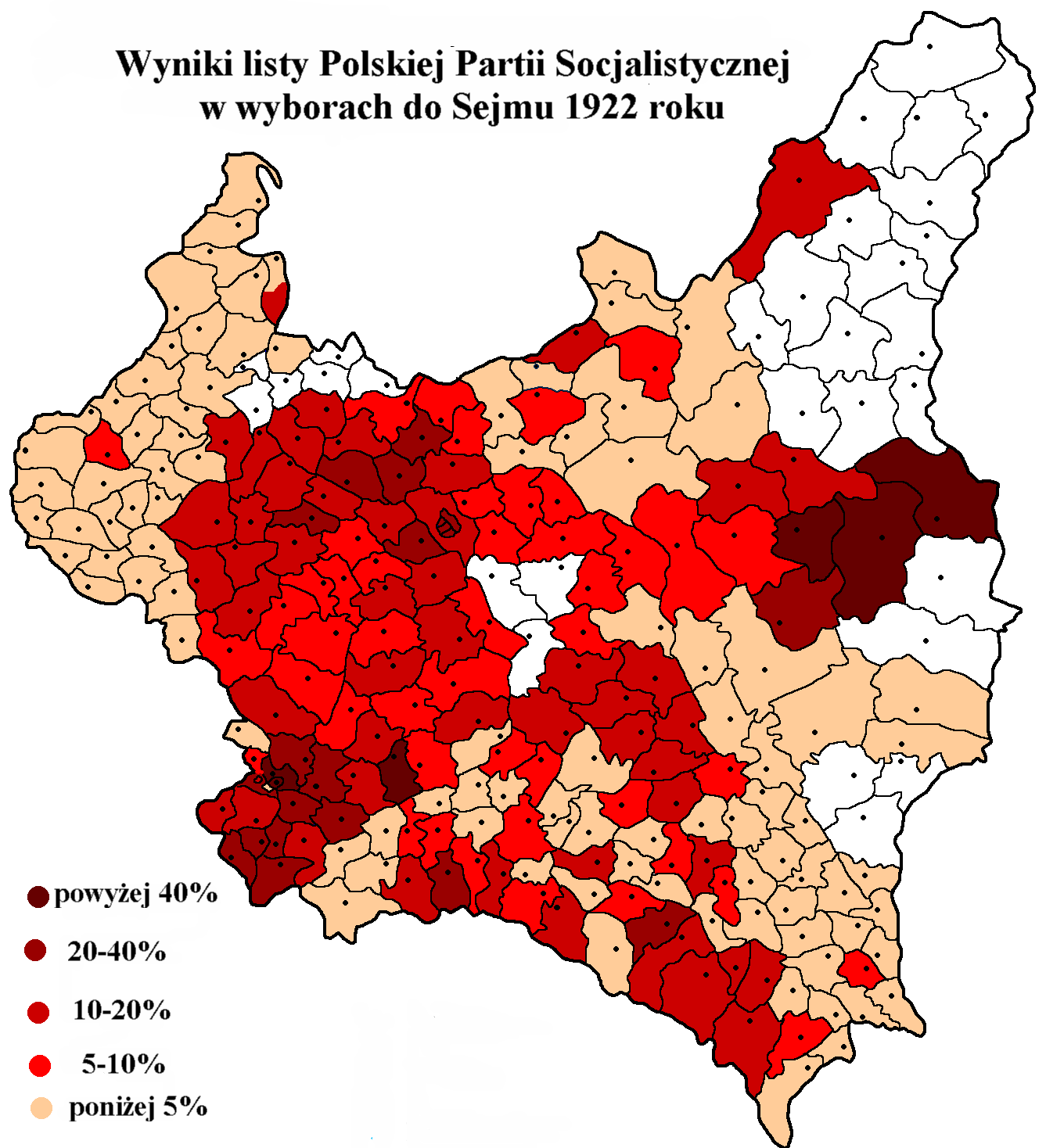 Polish Socialist Party results in the Polish legislative elections, 1922